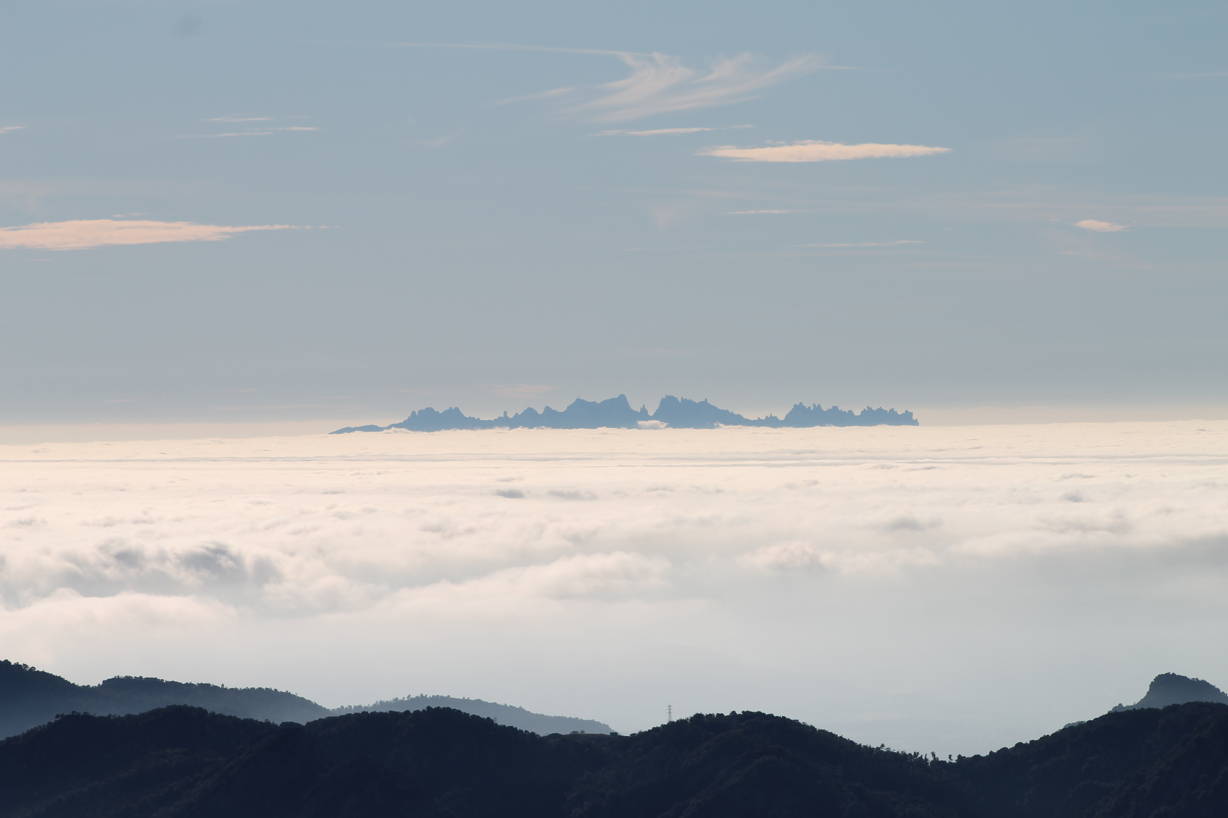 Montserrat mountains seen from Puig Lluent with a see of clouds.